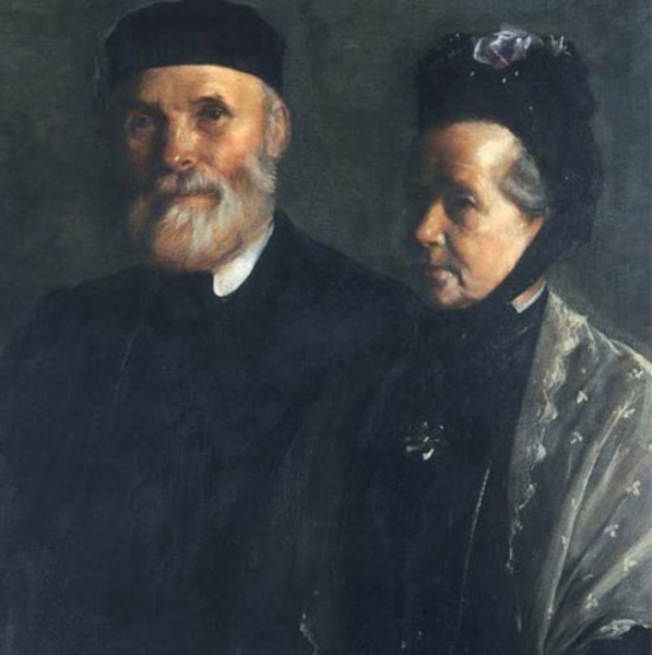 Mr. and Mrs. Haslam